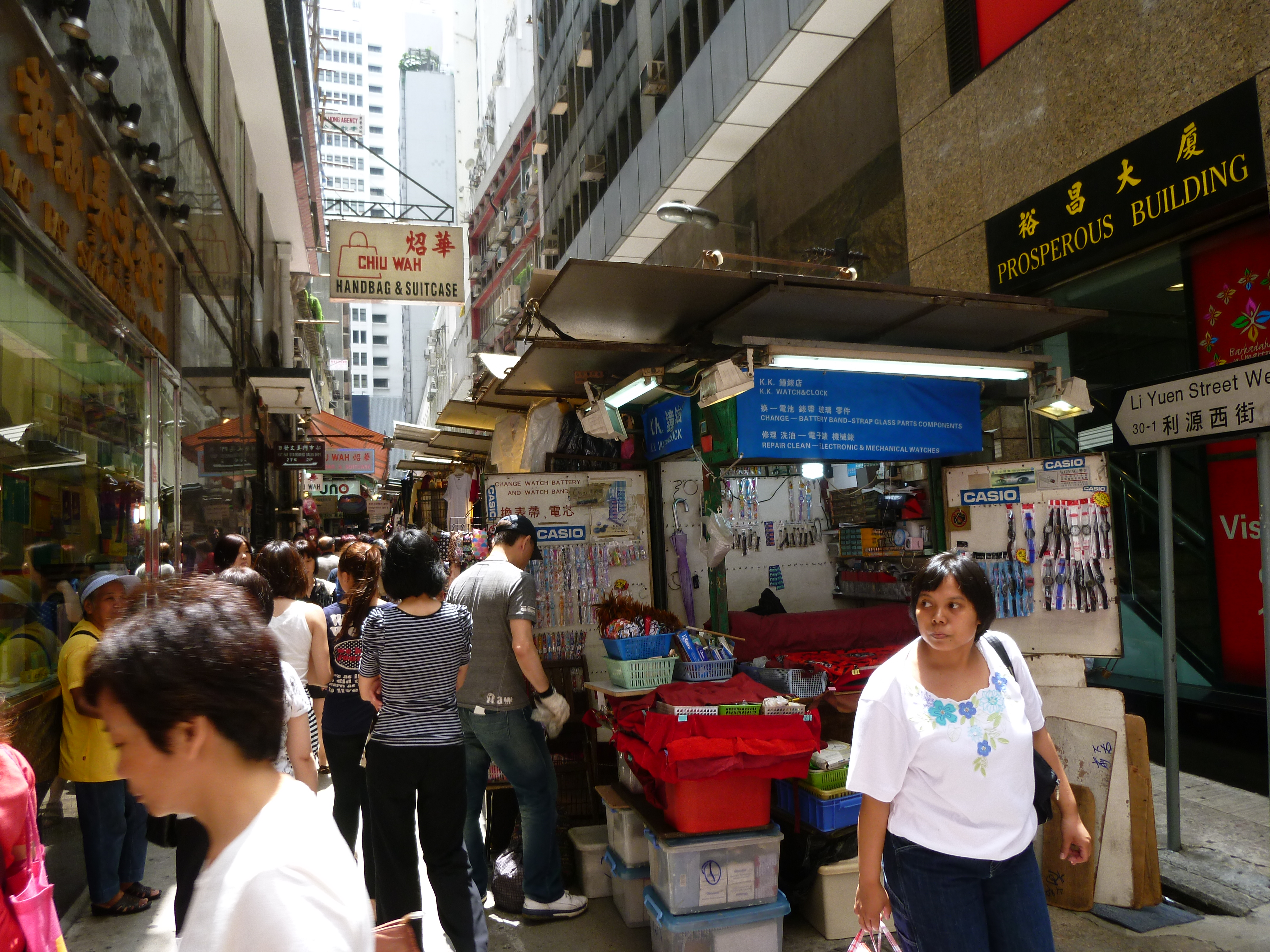 Li Yuen Street West, Central, Hong Kong